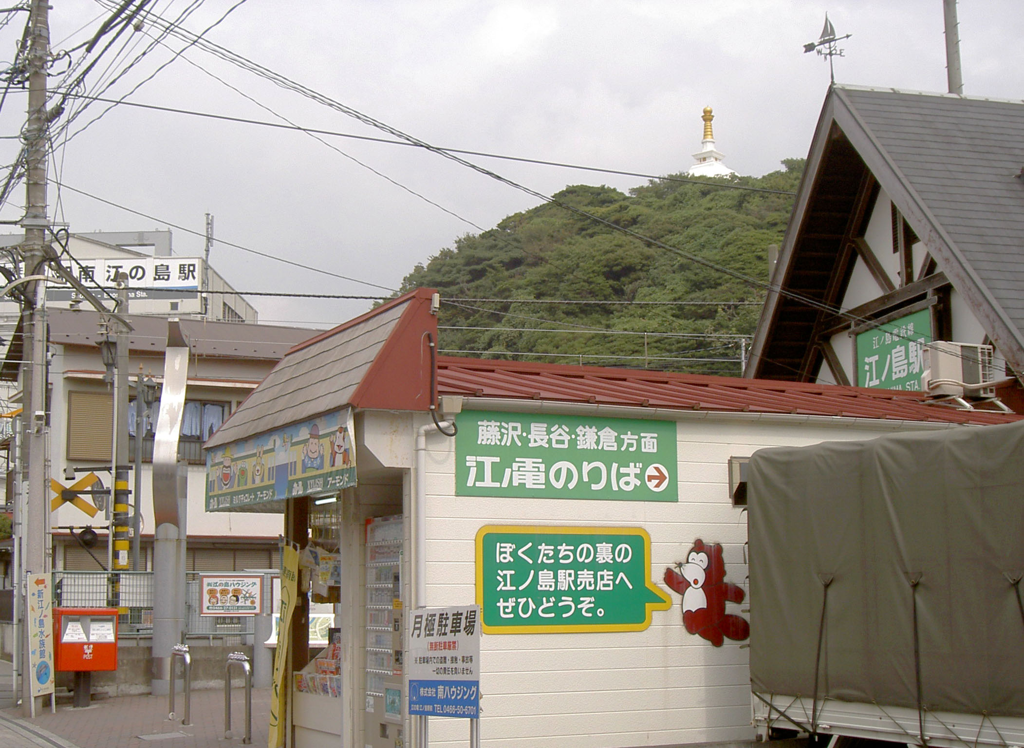 Enoden Enoshima Station and Shonan Monorail Shonan-Enoshima Station (They are near to each other.)